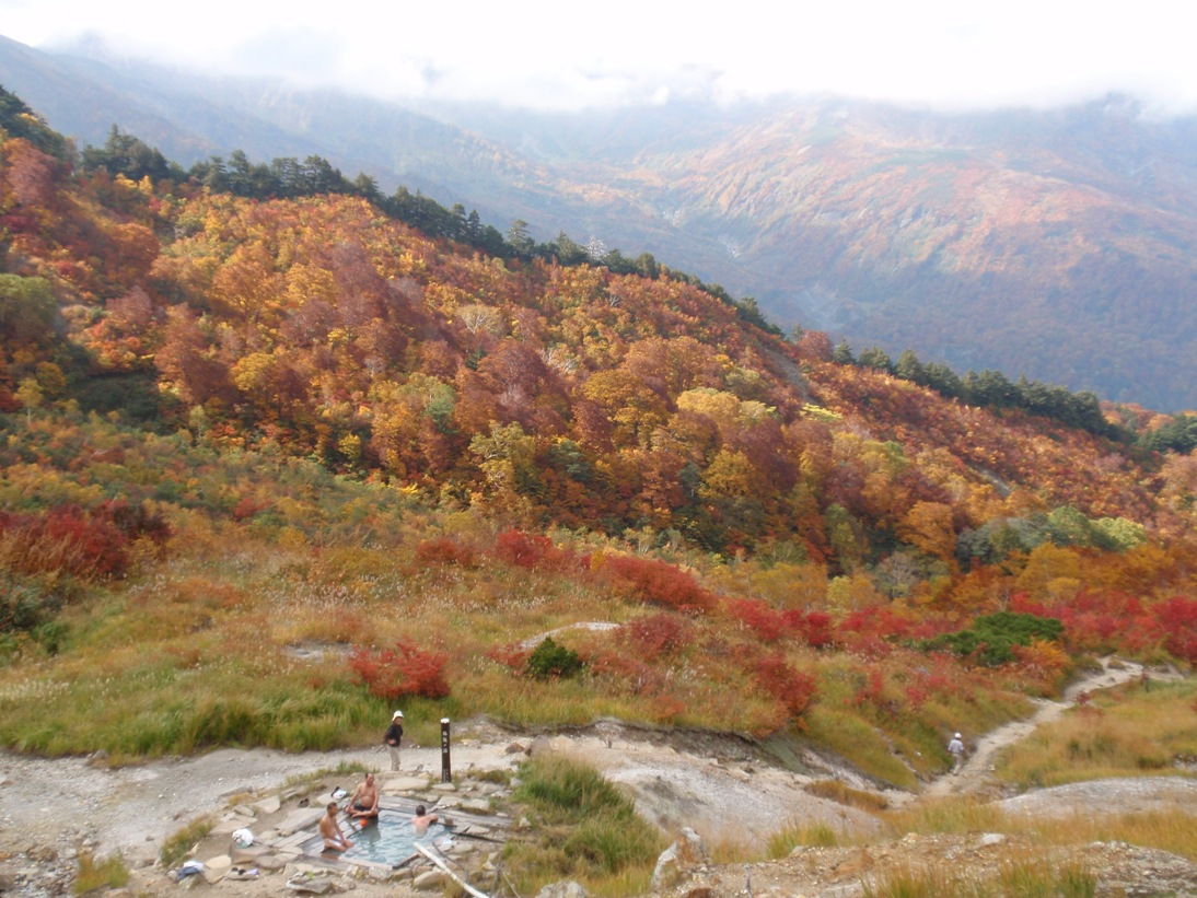 Renge spa Senki no yu